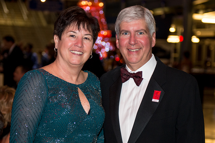 Michigan Governor Rick Snyder (right) with wife Sue Snyder. Photo taken at Ford Field in Detroit, Michigan on 1.18.2013